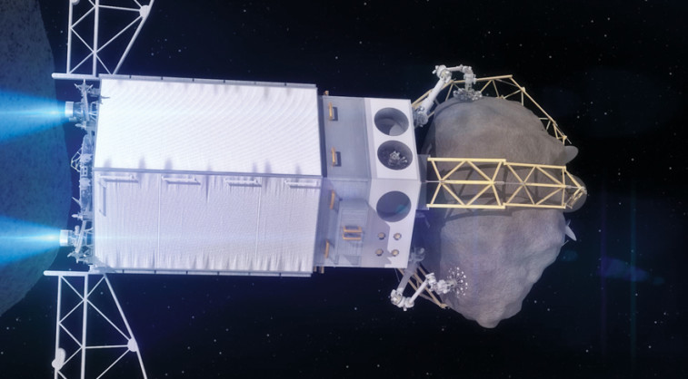 Close-up of the Asteroid Redirect Vehicle departing the asteroid after capturing a boulder from its surface. Credit: NASA artist’s concept. Under Option B, a robotic spacecraft will travel to an asteroid several hundred meters in diameter and grab a boulder up to four meters across from its surface. The robotic spacecraft would then return the asteroid into a distant retrograde lunar orbit. An Orion spacecraft, with two astronauts on board, would then fly to the asteroid to collect samples for return to Earth.